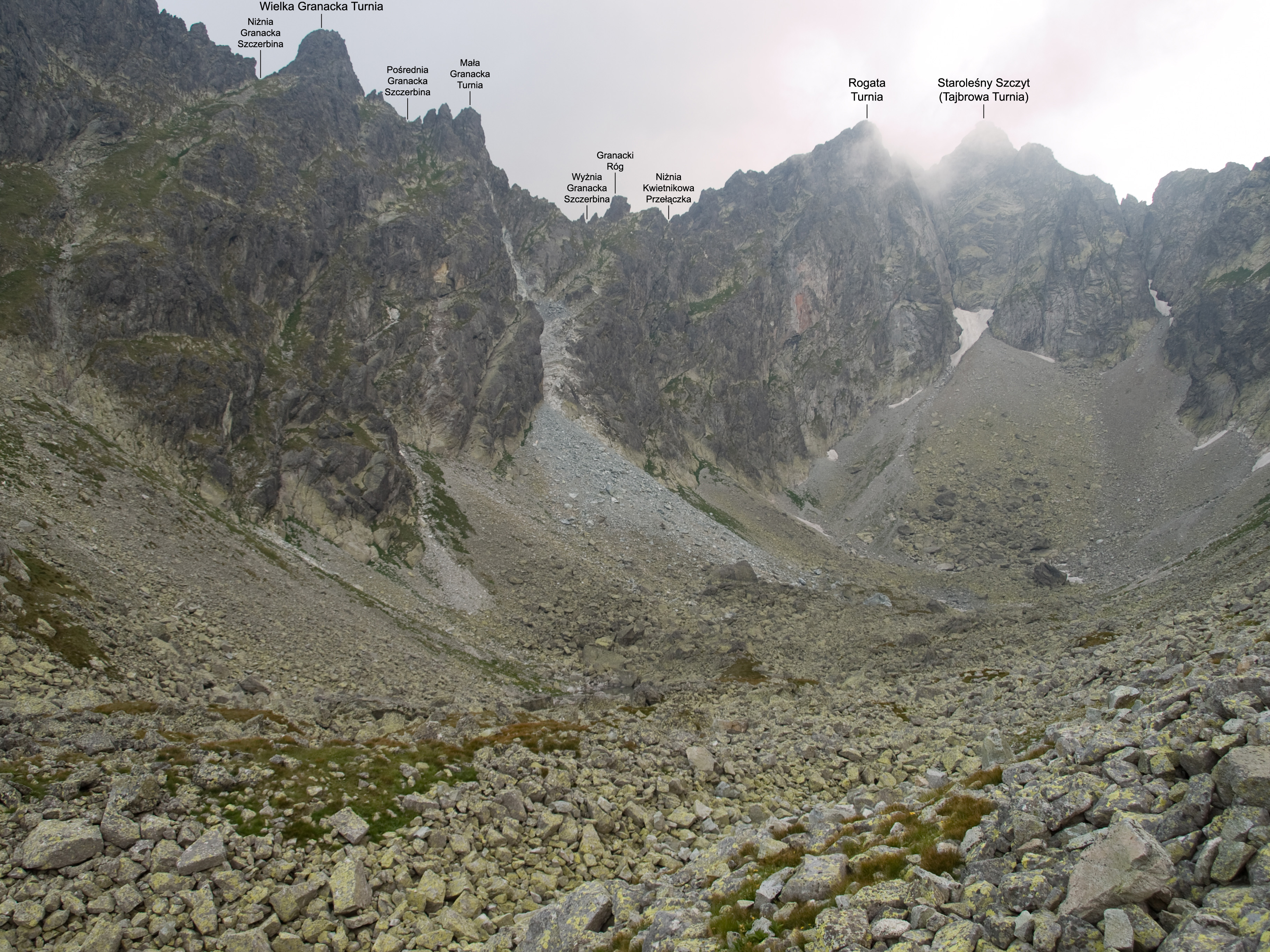 Velické Granáty, view from Slavkovská dolina.